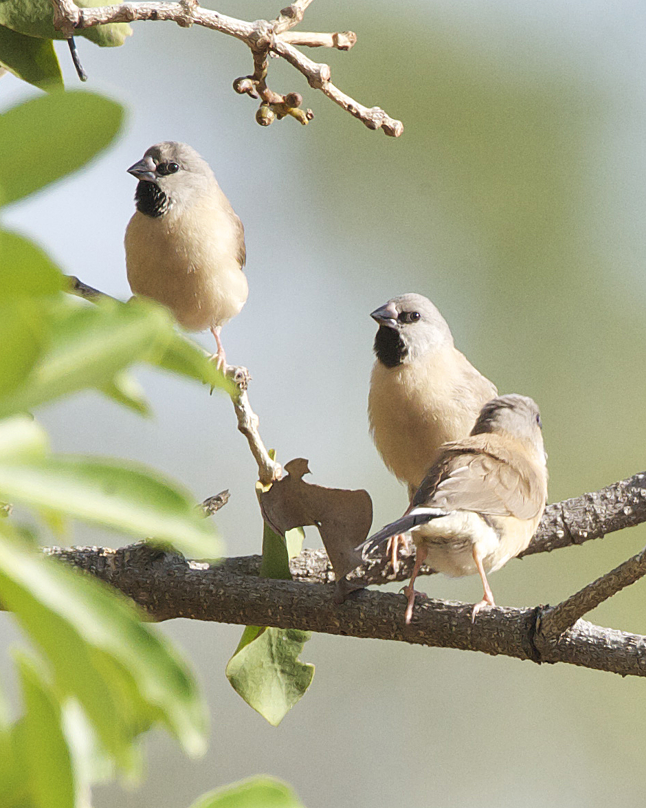 Three juvenile Long-tailed Finches in Wulagi, Darwin, Australia. The juveniles have black beaks.